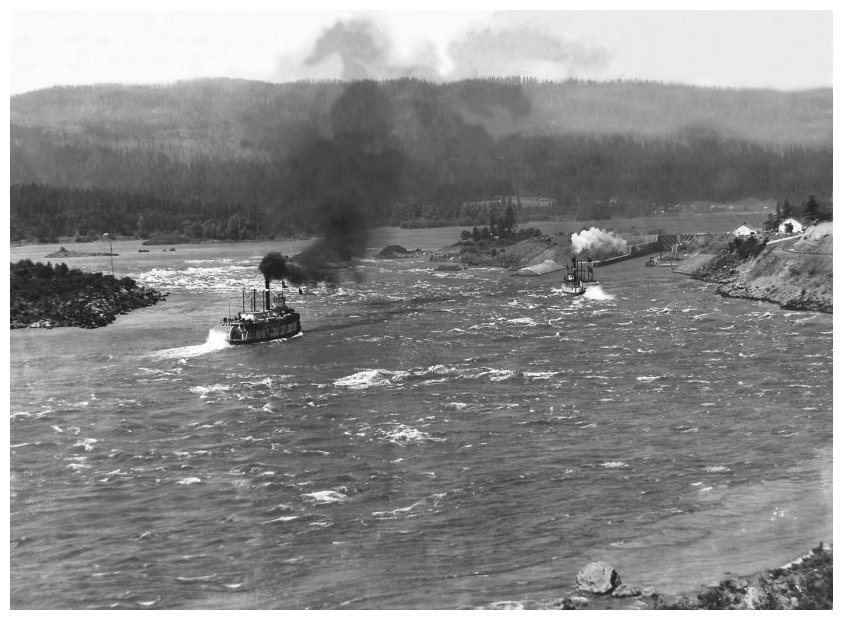 Steamboats approaching Cascade Locks. The Bailey Gatzert is the boat on the left, the Charles R. Spencer is the boat right. Bailey Gatzert did not run on the Columbia River after 1917. From the Bonneville Power Administration website, which states that it obtained this from the U.S. Corps of Engineers.